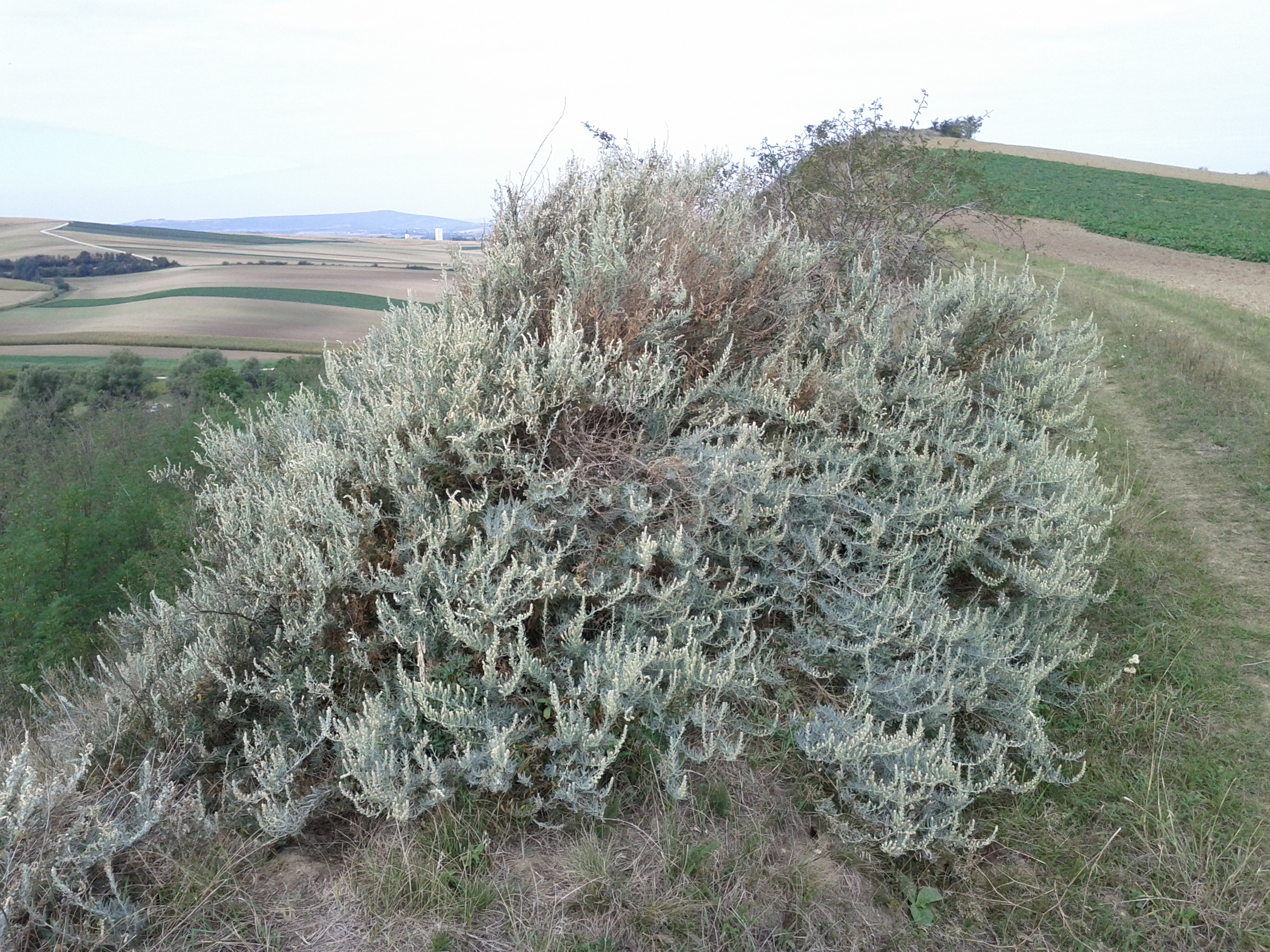 Habitus Taxonym: Krascheninnikovia ceratoides ss Fischer et al. EfÖLS 2008 ISBN 978-3-85474-187-9 Location: Natural monument Blauer Berg near Oberschoderlee, district Mistelbach, Lower Austria - ca. 280 m a.s.l. Habitat: dry grassland